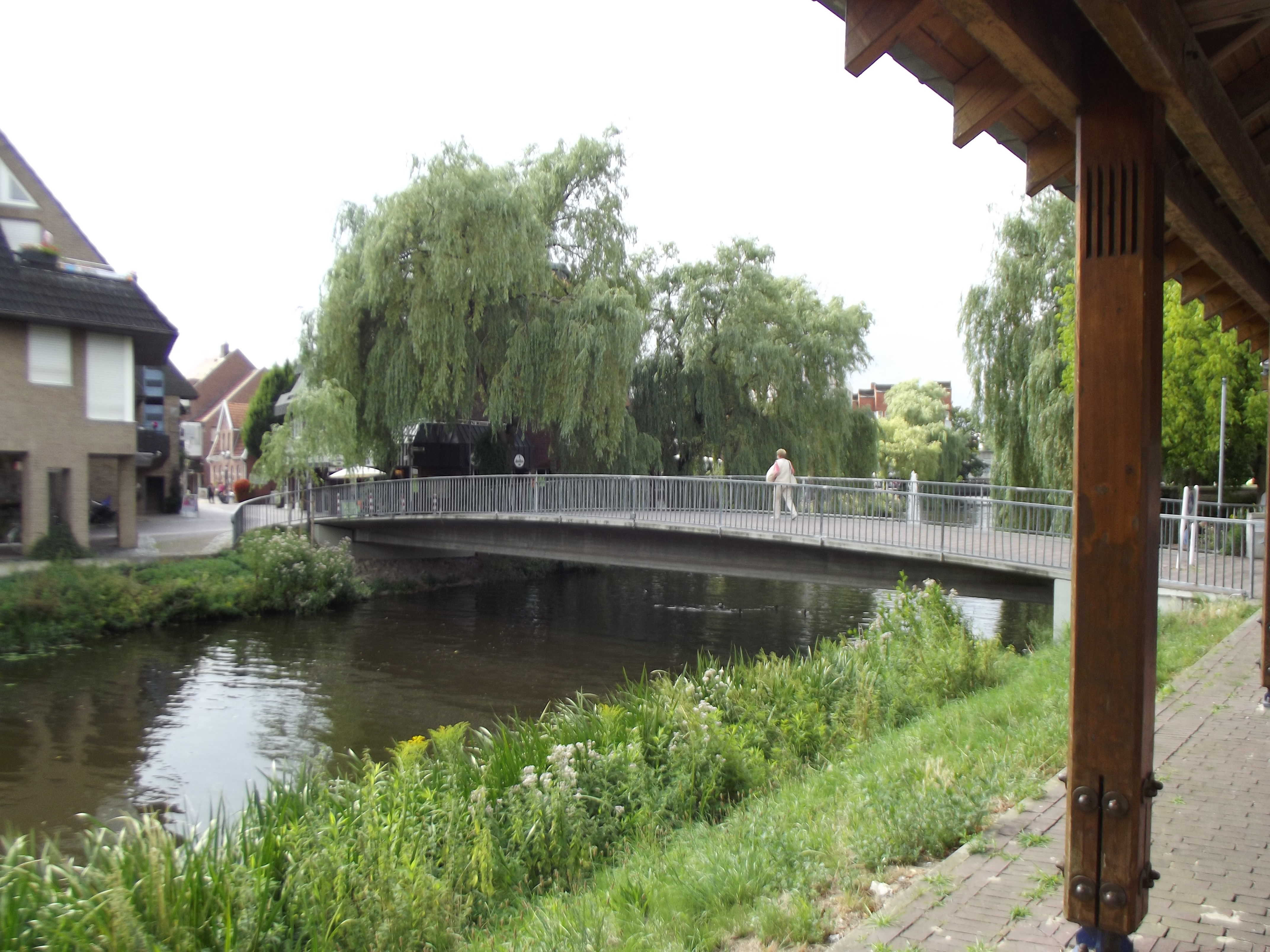 A bridge in Nordhorn named after its partner city Malbork in Poland